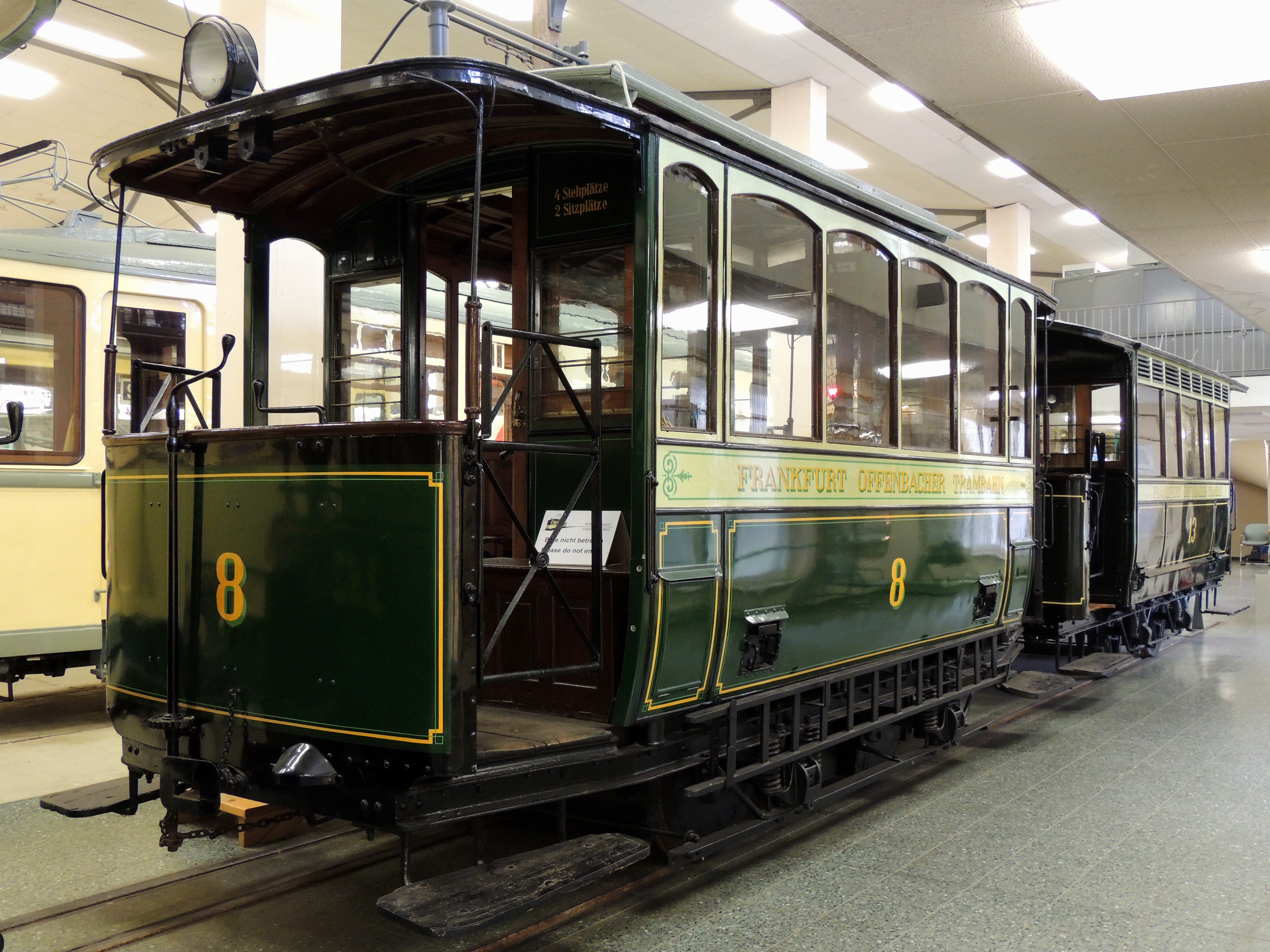 tram 8 and tram trailer 13 of the FOTG in the Frankfurt on Main Transport Museum in Frankfurt am Main--Schwanheim